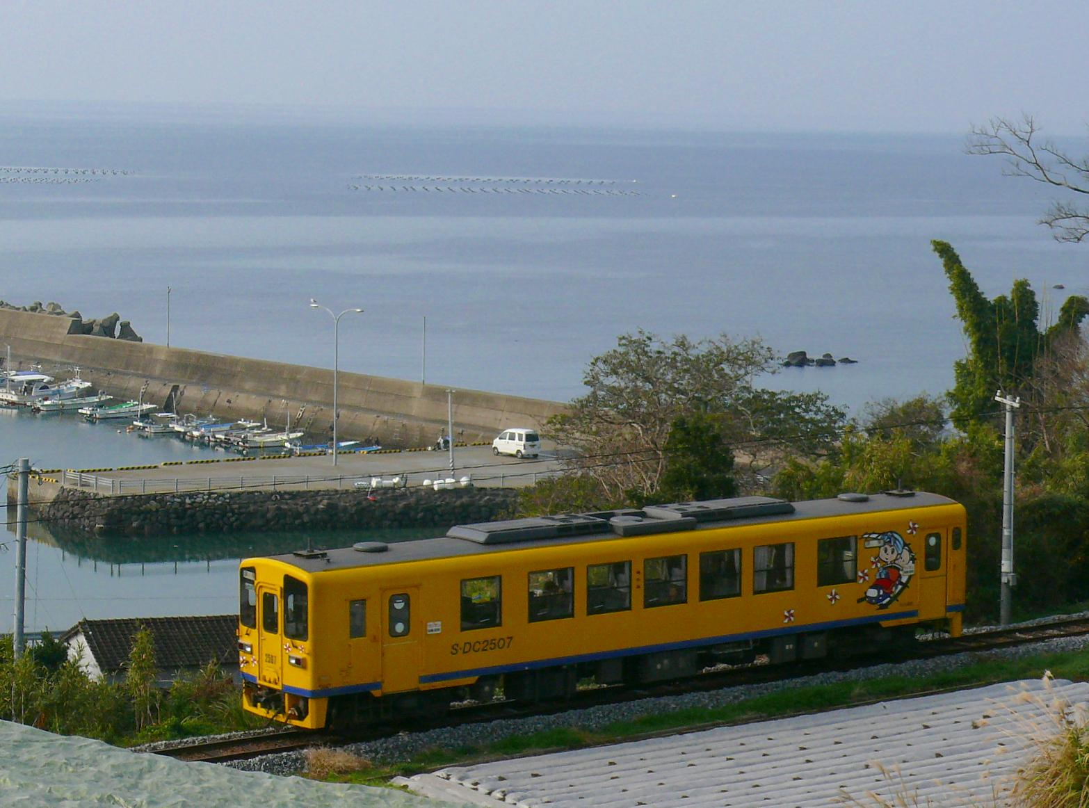 Scenery along the Shimabara Railway Line, near Shirahama kaisuiyokujo-mae Station